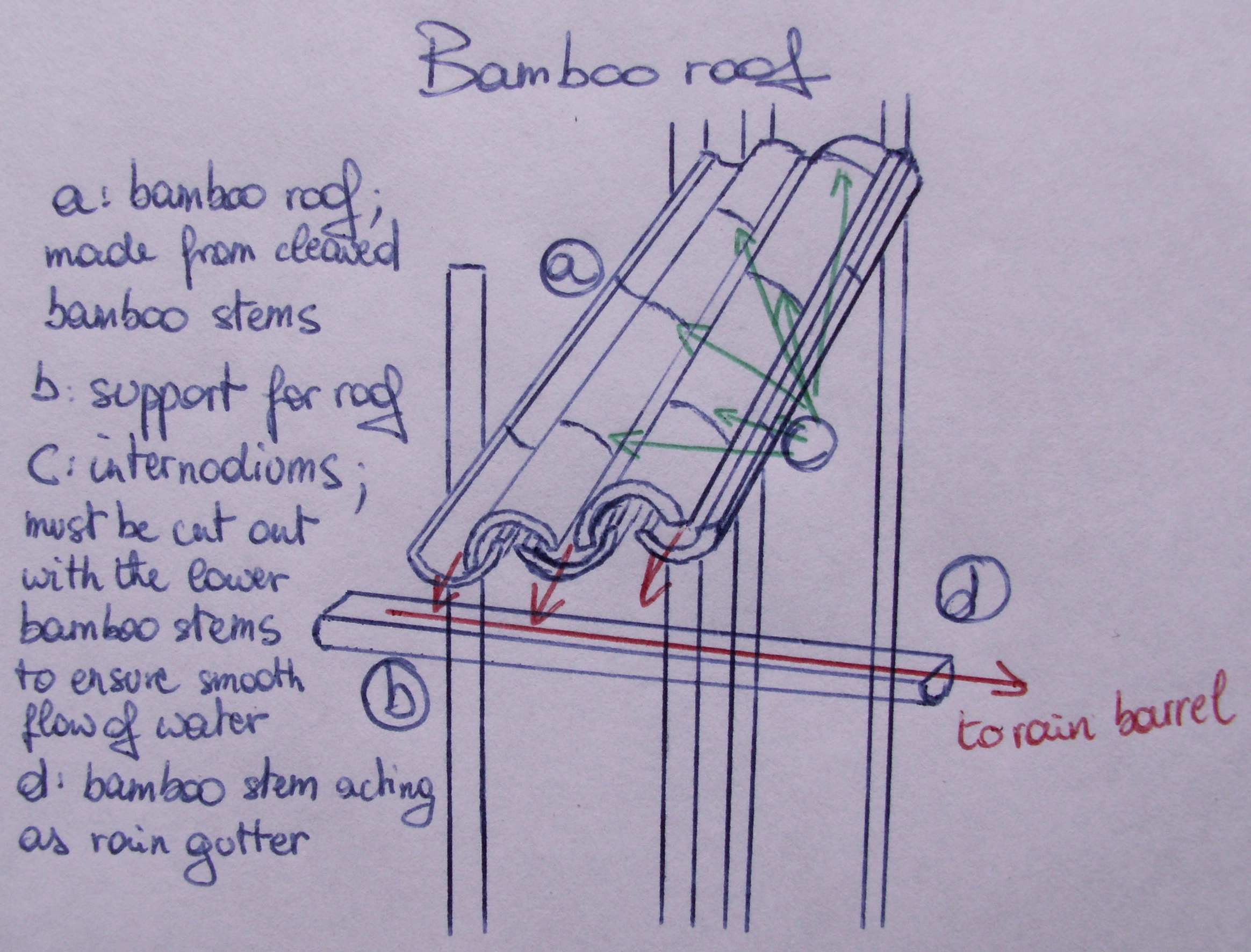 Schematic of a roof made exclusively from cleaved bamboo stems. The picture was based on a schematic in the book SAS Survival Handbook by John Wiseman. Bamboo roofs as these are completely ecologic and organicly compostable (if not altered with chemical agents; eg against rotting).